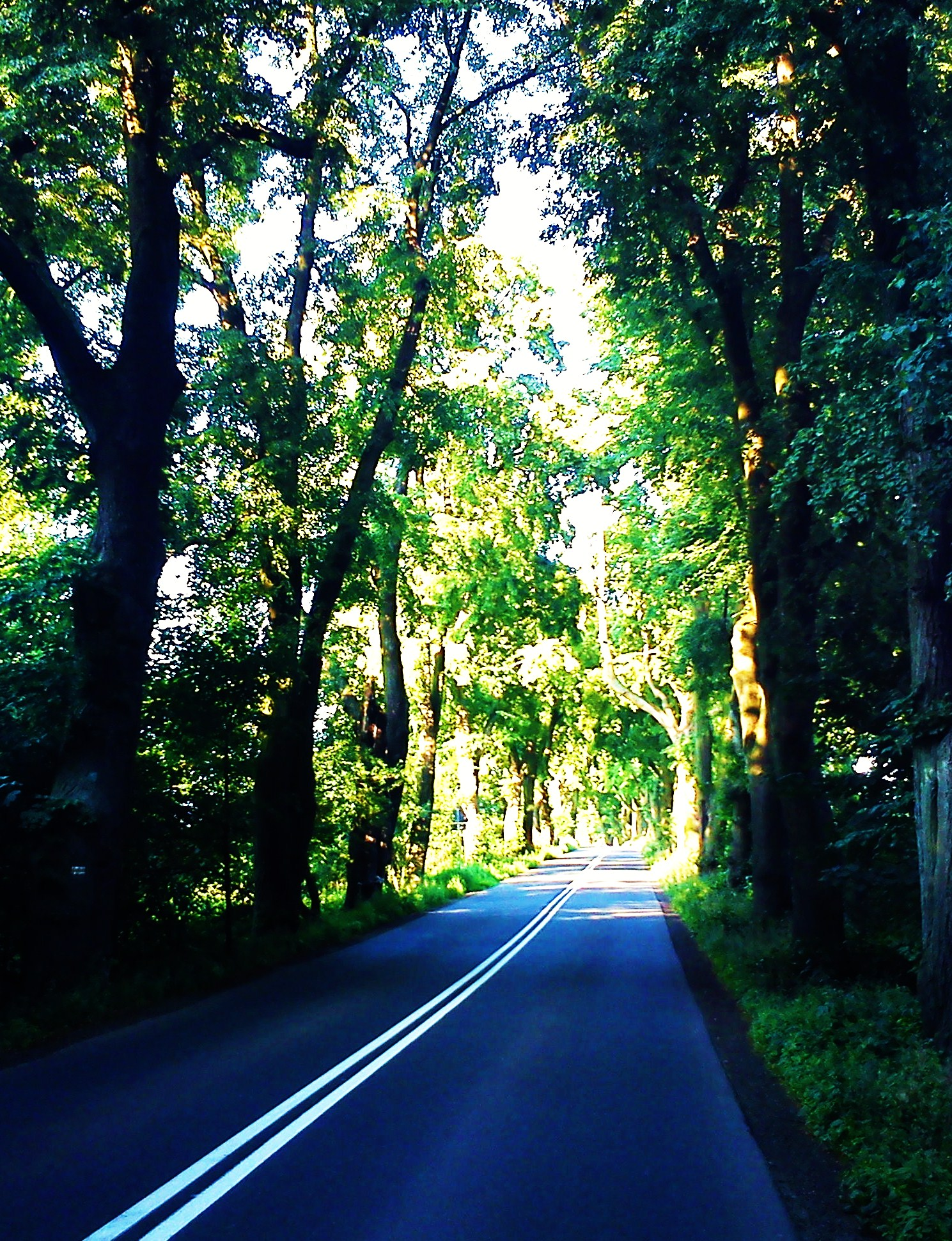 Meteorytowa Street, Poznan.